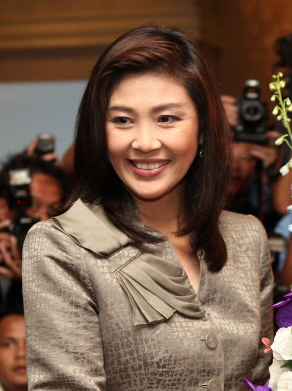 Yingluck Shinawatra. She was meeting the U.S. Ambassador Kristie Kenney during the United States Embassy in Bangkok's Independence Day celebration, 4 July 2011.